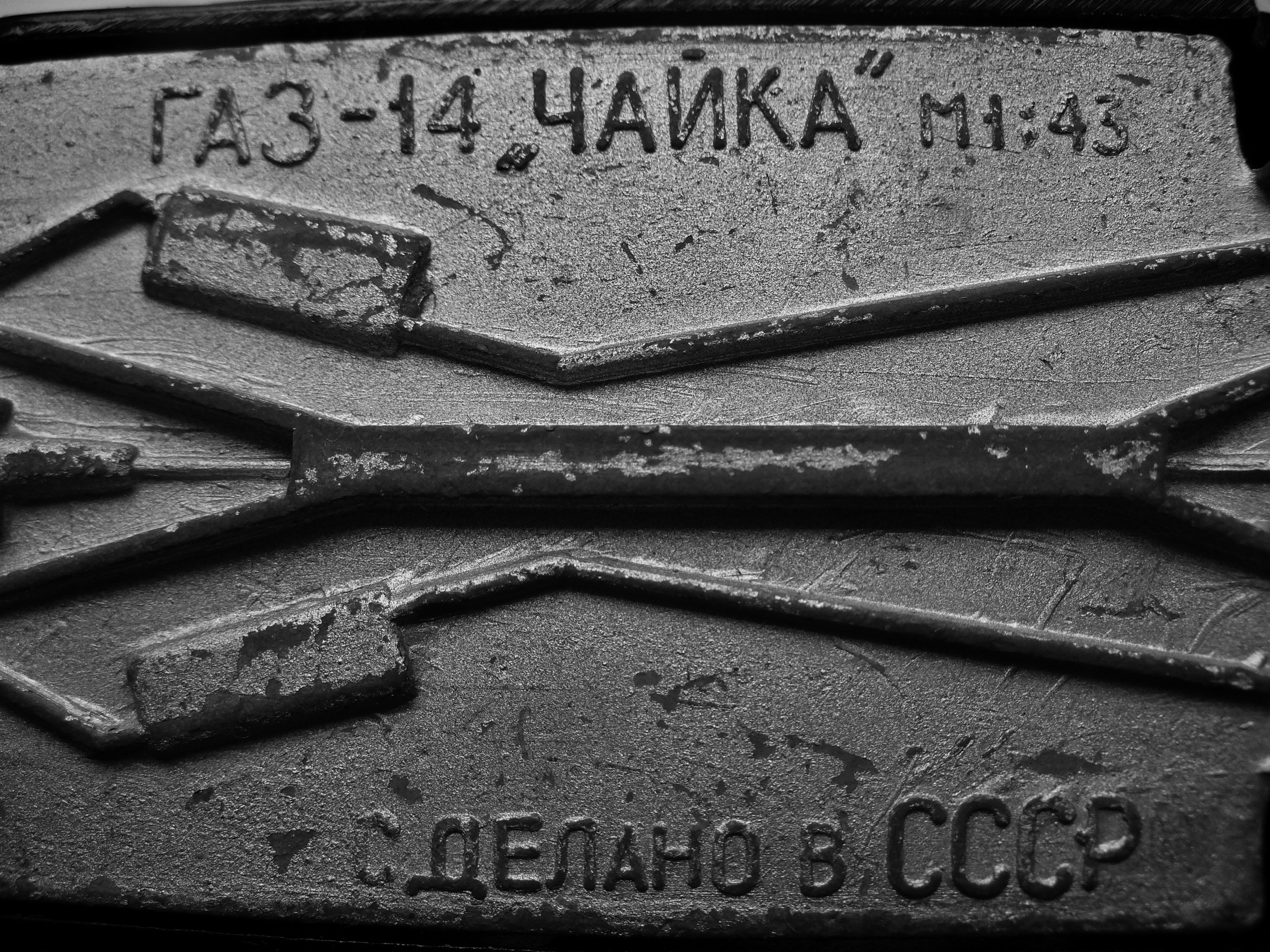 GAZ-14 MODEL (BOTTOM)